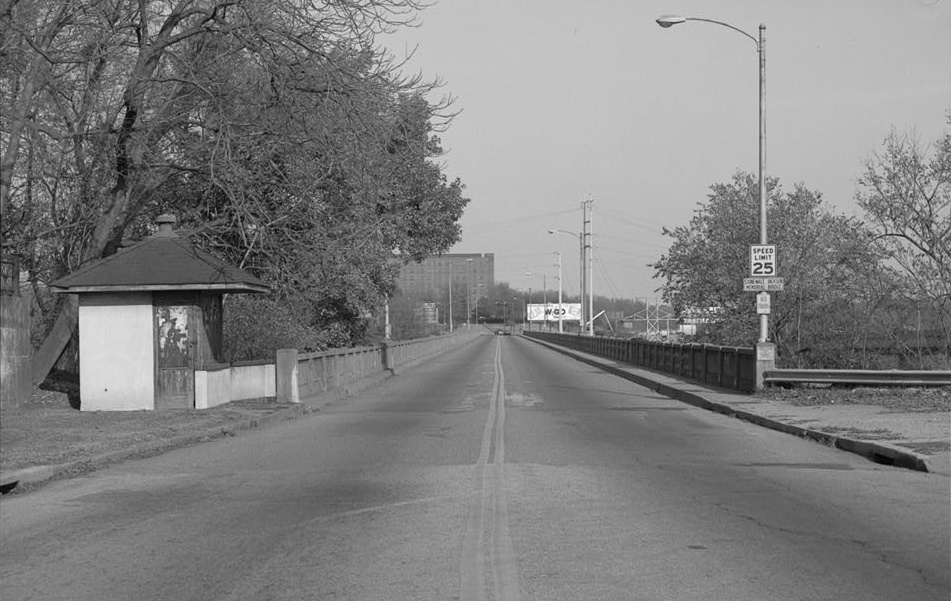 Title: 2. ENVIRONMENT, FROM SOUTH, SHOWING FIFTH STREET VIADUCT BRIDGE DECK AND ROADWAY, PARAPETS, AND TOLLHOUSE - Fifth Street Viaduct, Spanning Bacon's Quarter Branch Valley on Fifth Street, Richmond, Independent City, VA Medium: 4 x 5 in. Reproduction Number: HAER VA,44-RICH,115--2 Rights Advisory: No known restrictions on images made by the U.S. Government; images copied from other sources may be restricted. ( Call Number: HAER VA,44-RICH,115--2 Repository: Library of Congress Prints and Photographs Division Washington, D.C. 20540 USA Place: Virginia -- Independent City -- Richmond Latitude/Longitude: 37.55361, -77.46056 Collections: Historic American Buildings Survey/Historic American Engineering Record/Historic American Landscapes Survey